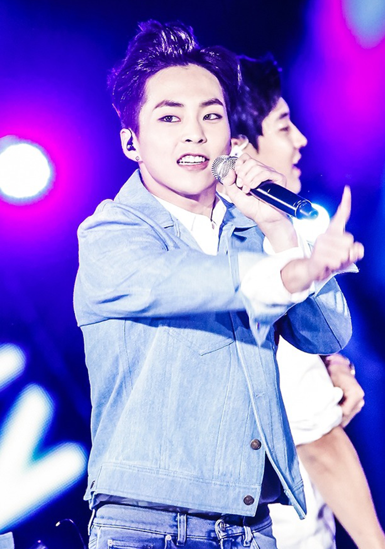 Xiumin performing on October 9, 2015.